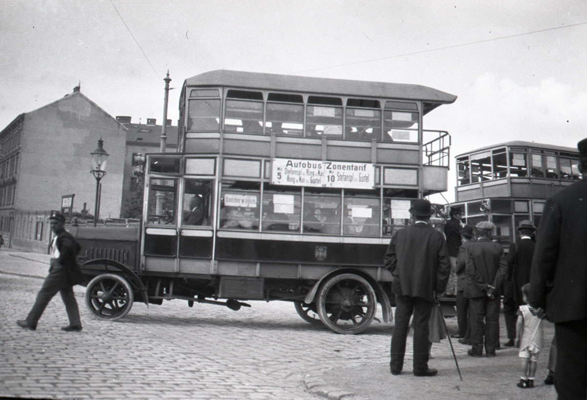 Early double-decker bus of the Wiener Verkehrsbetriebe, location unknown. (Probably at the Rudolfsheim tramway depot?)